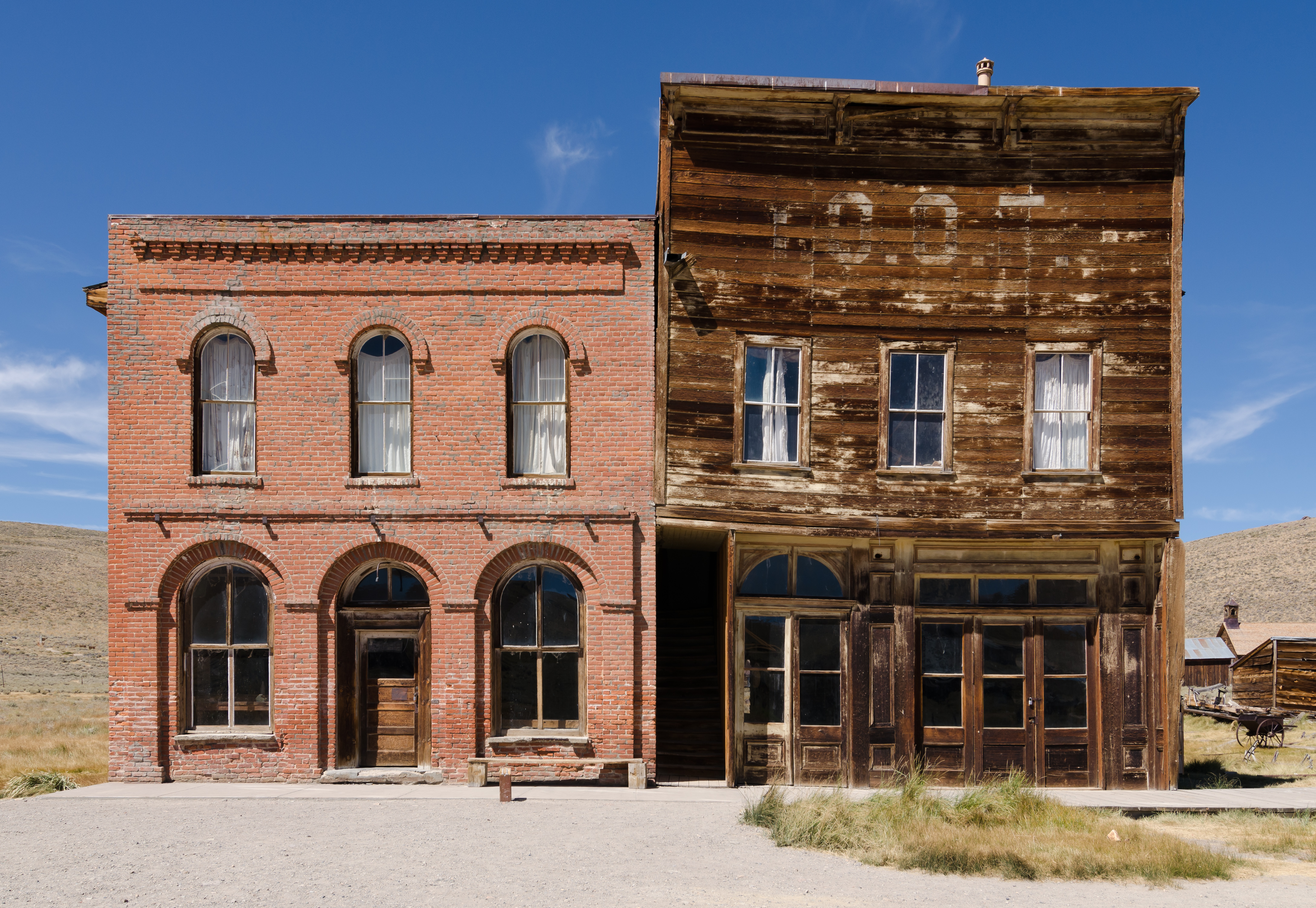 Dechambeau Hotel and I.O.O.F. Hall, Bodie, California.